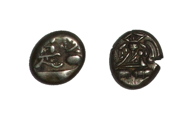 Shotokukoki-mameitagin